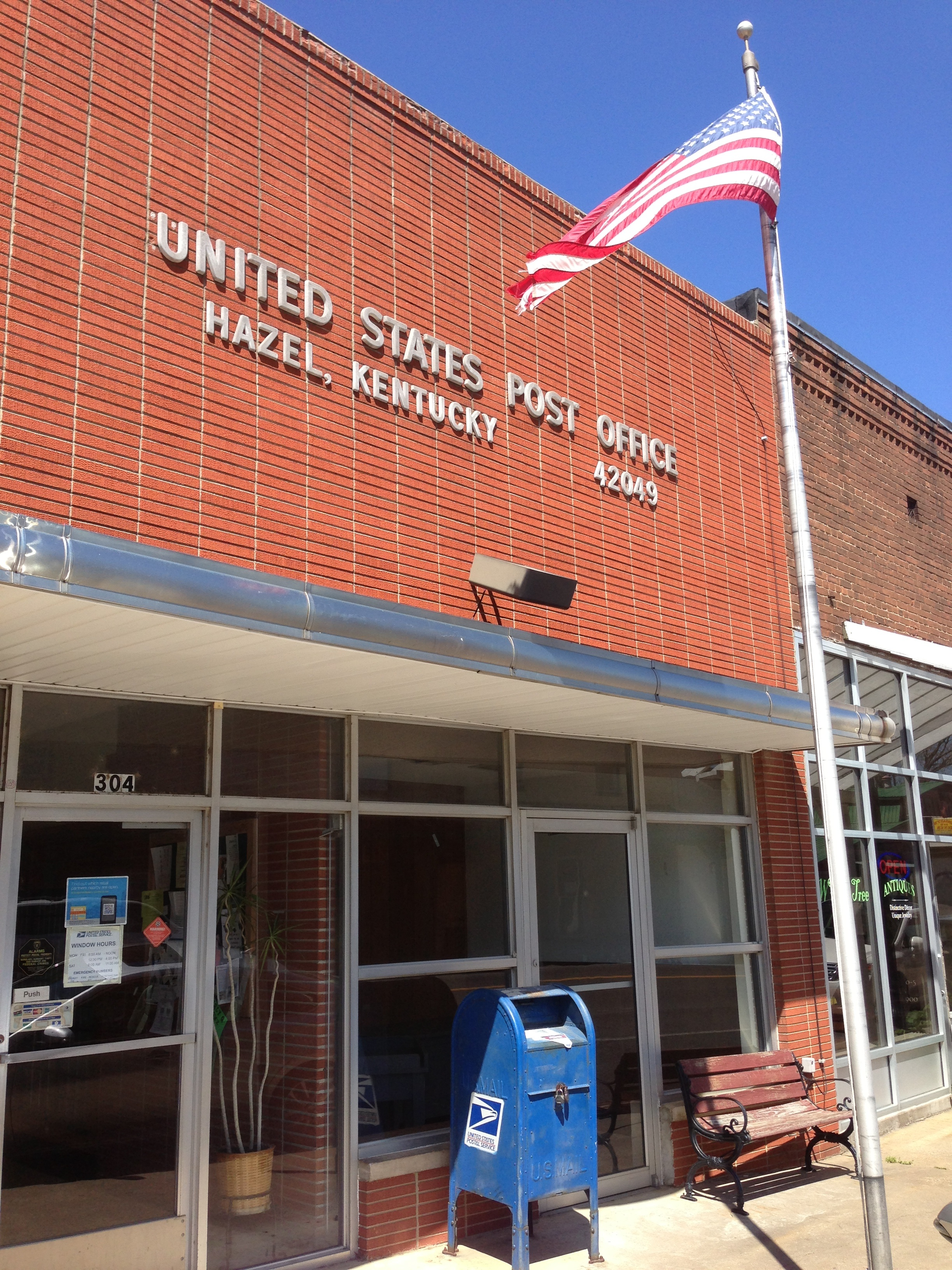 Hazel Kentucky Post Office